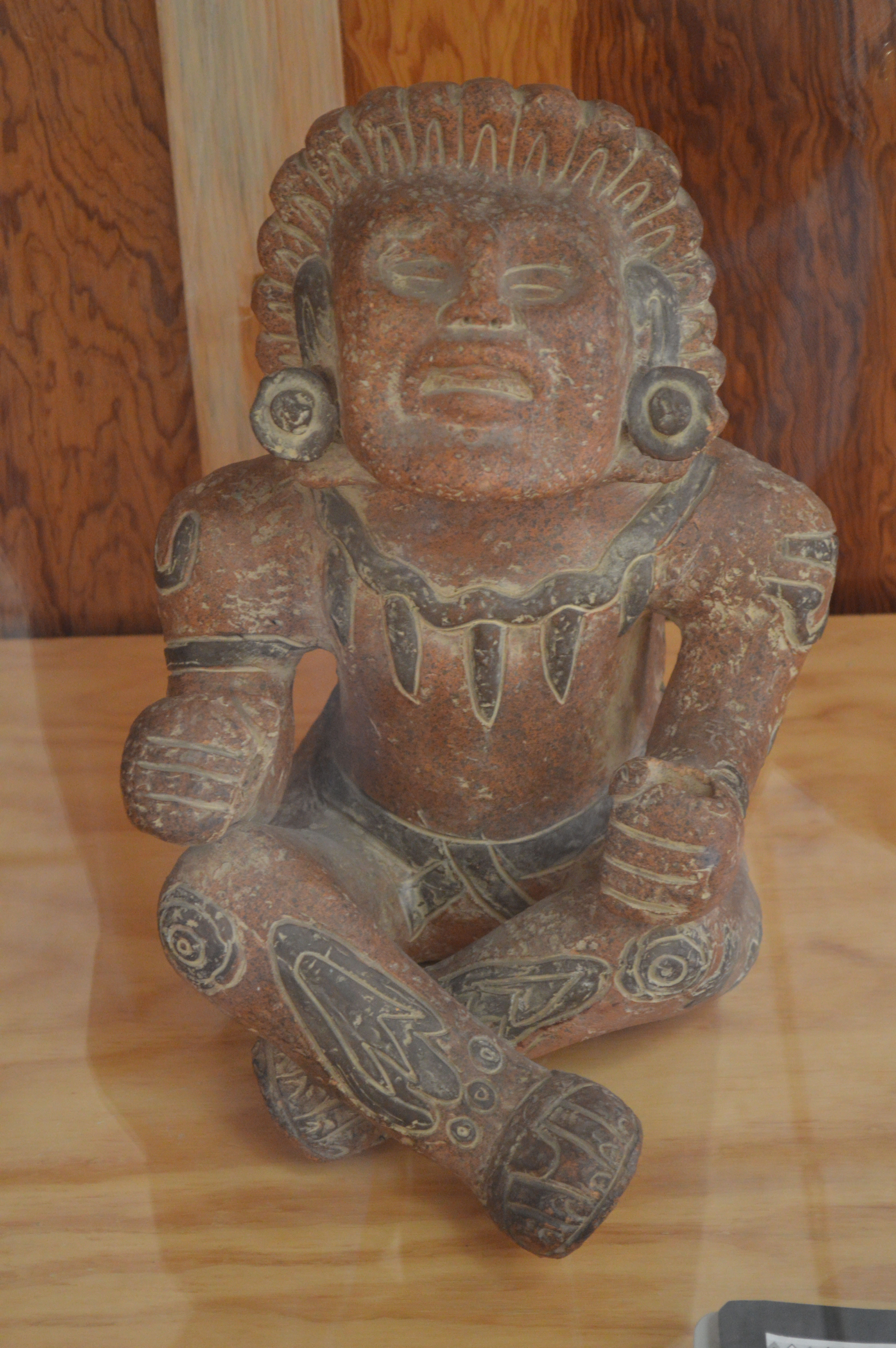 A figure of Xochipilli in ceramic at the Museo Regional Altepepialcalli in Milpa Alta, Mexico City